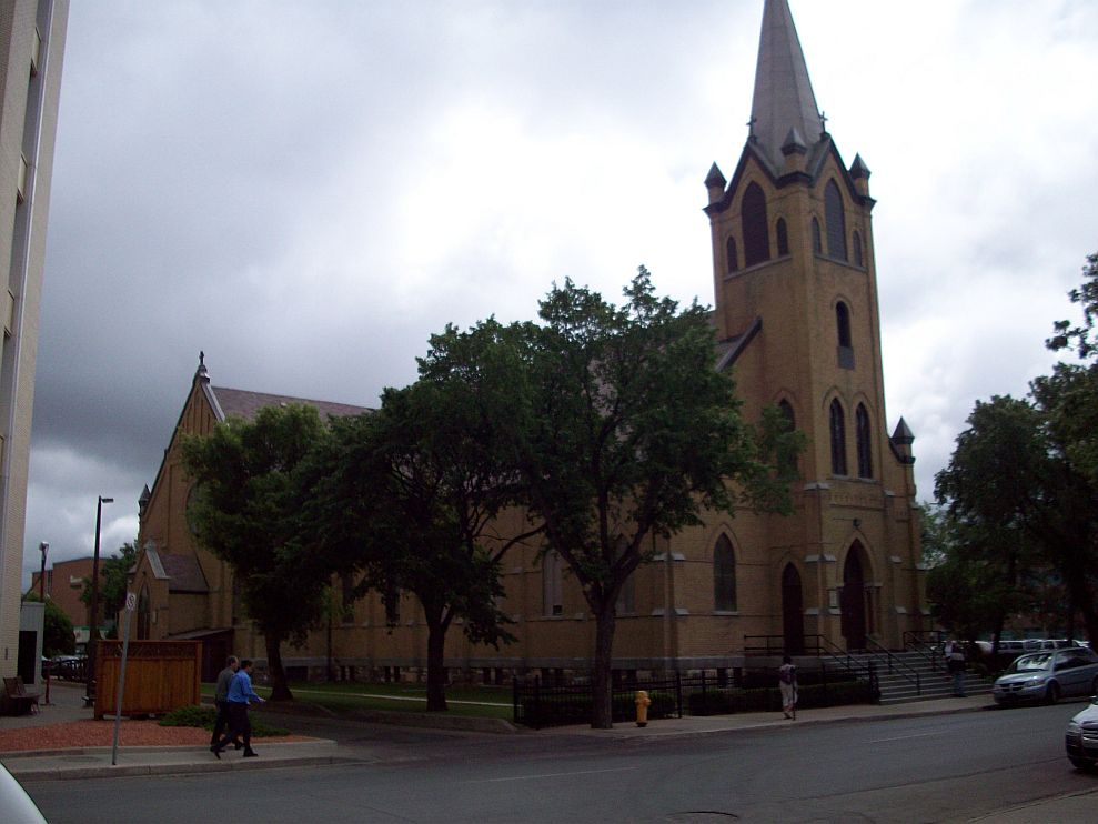 Blessed Sacrament RC Church, Scarth Street, Regina